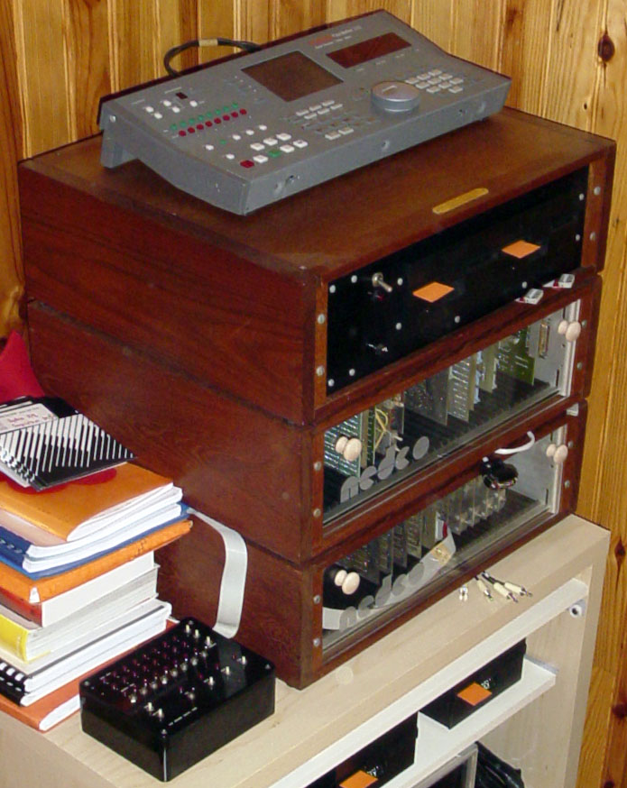 Jean-Bernard EMOND